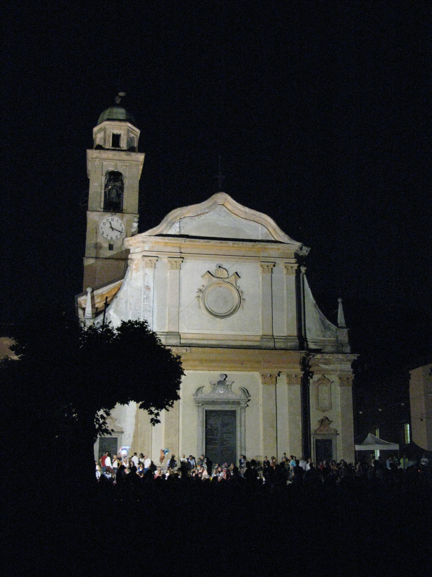 A view of St. John the Baptist's church during a popular feast, Bellagio, Como, Italy